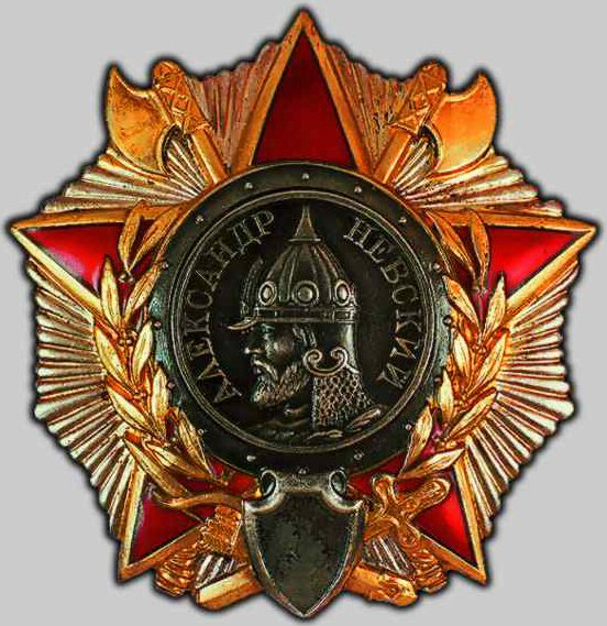 Order of Alexander Nevsky USSR/Russia, version 1991-2010.